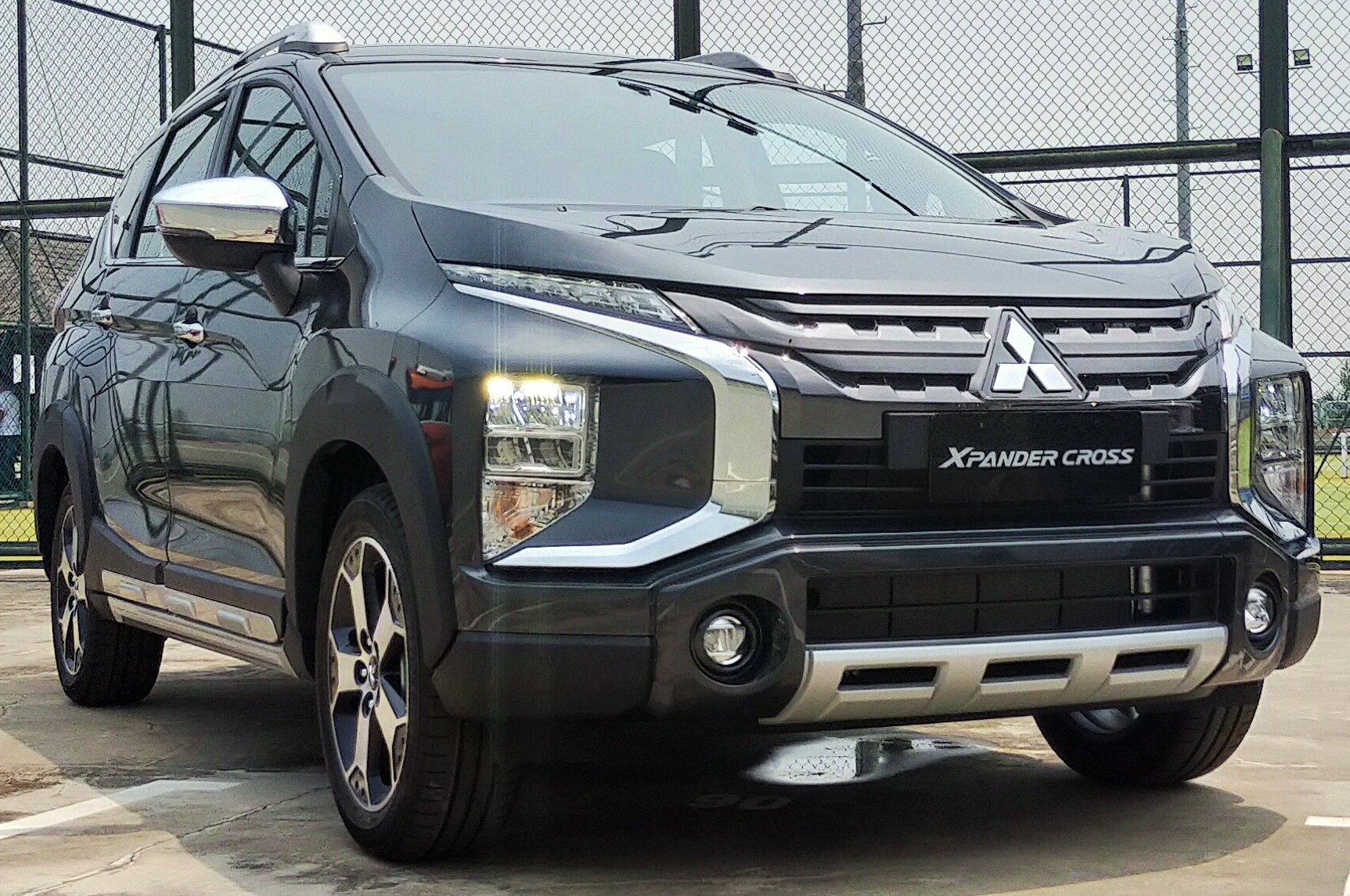 Mitsubishi Xpander Cross 2020 officially debuted in Indonesia